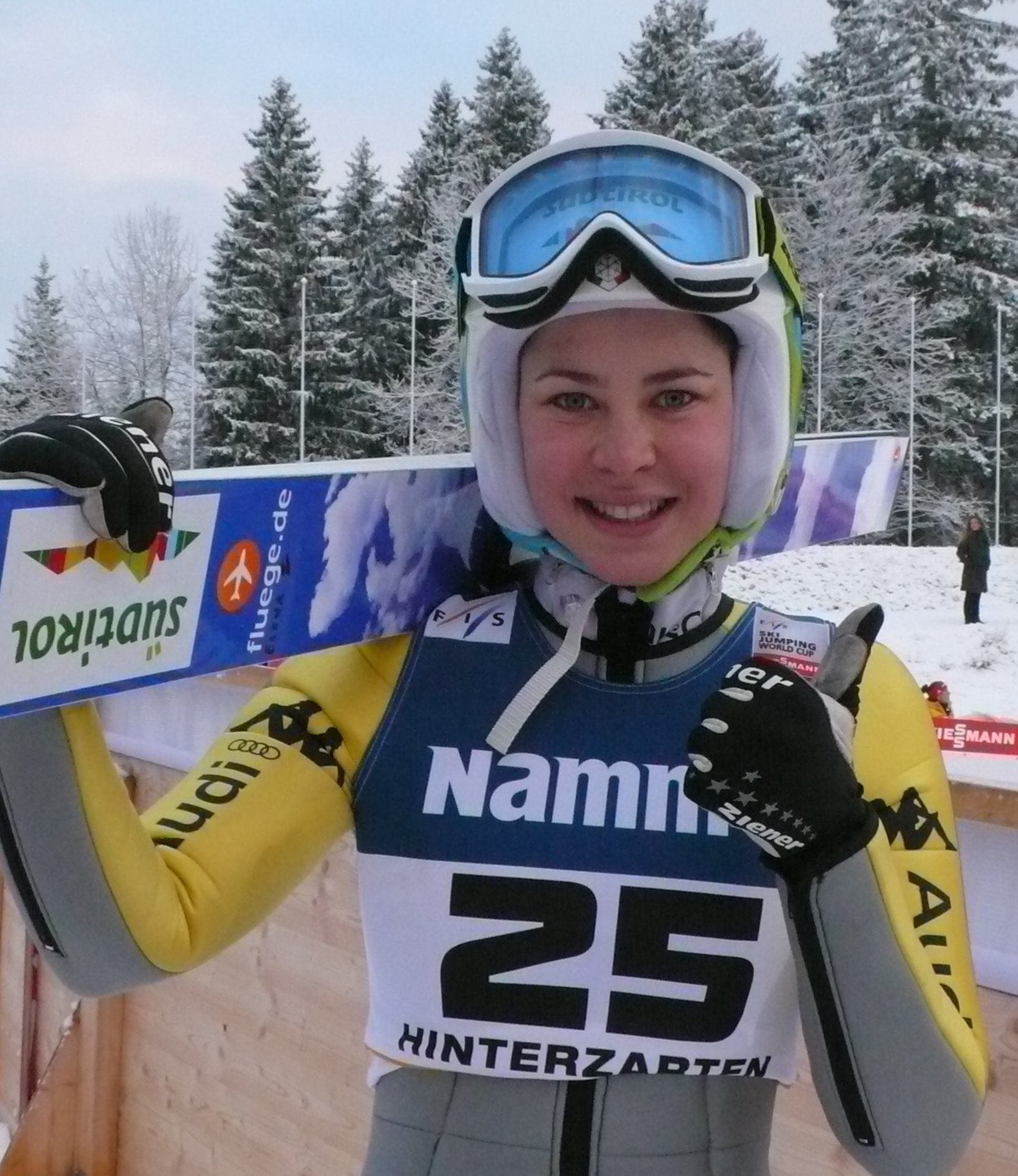 Elena Runggaldier